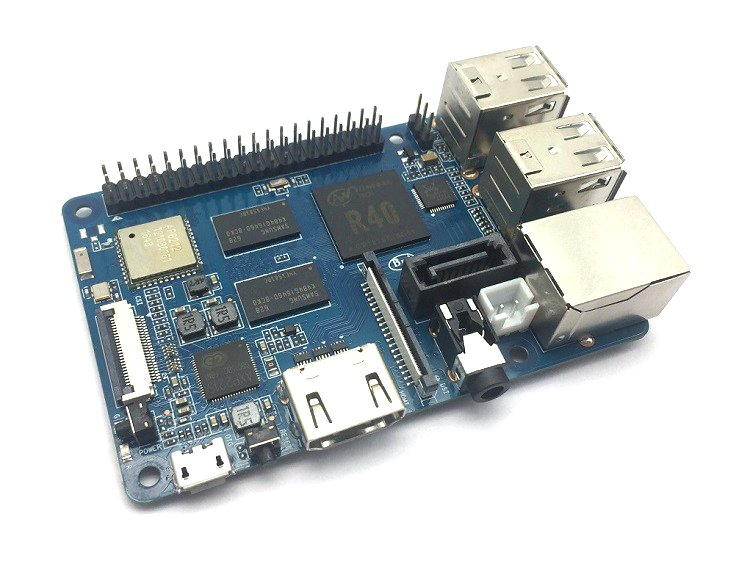 Banana pi BPI-M2 Berry